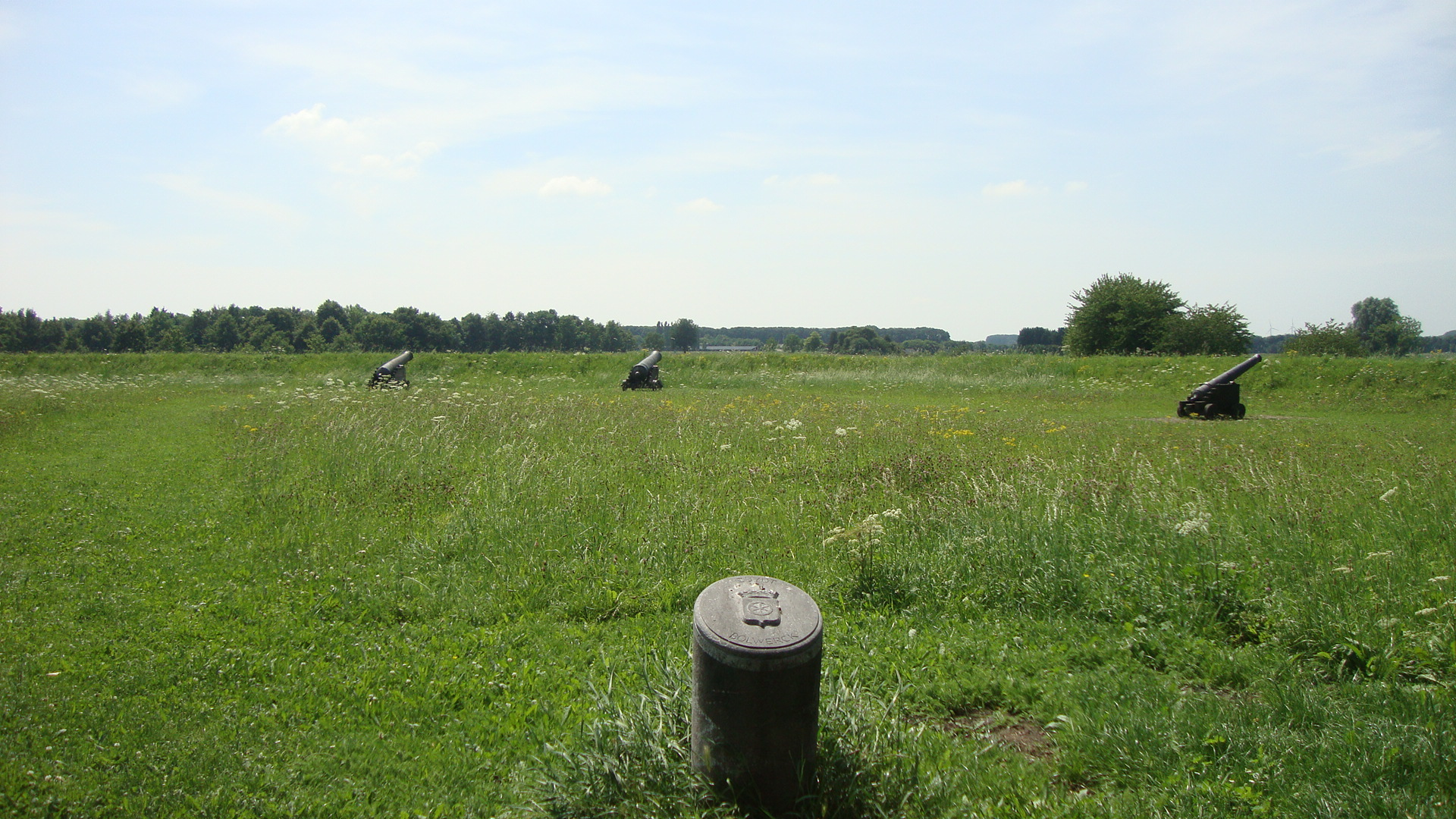 Canons on a stronghold at Heusden town.